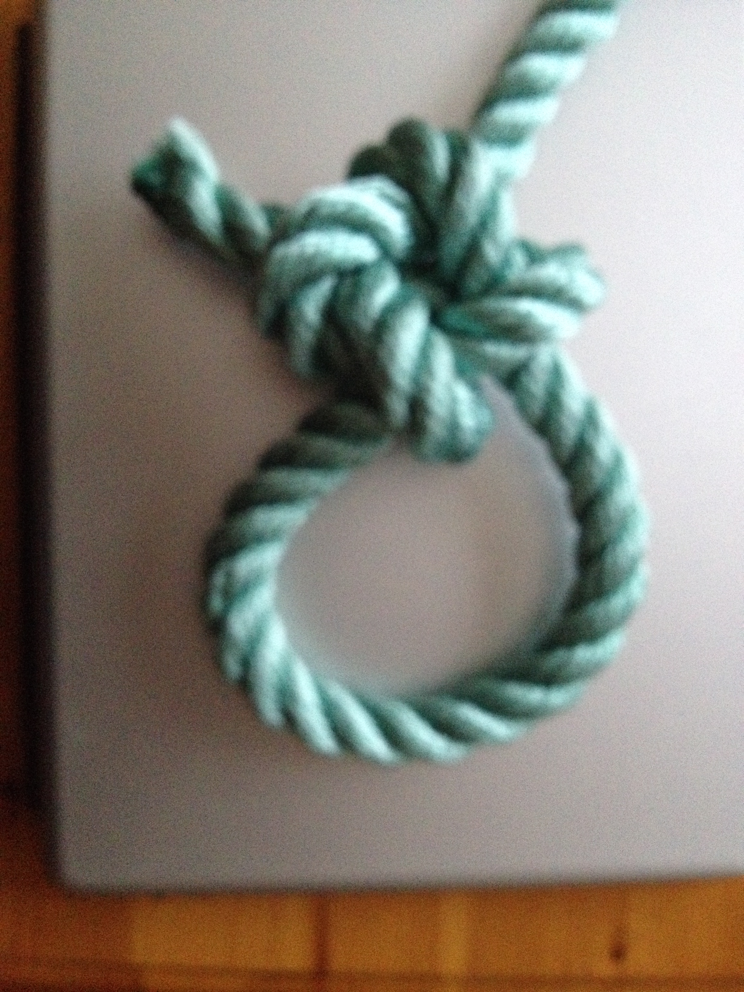 Friendship knot loop front view